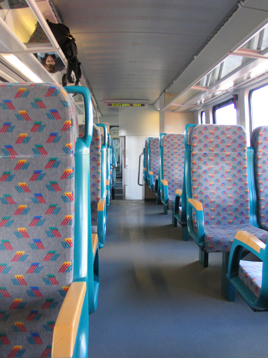 Passenger compartment of the SŽ series 312, a Slovenian railway-operated Siemens Desiro train.